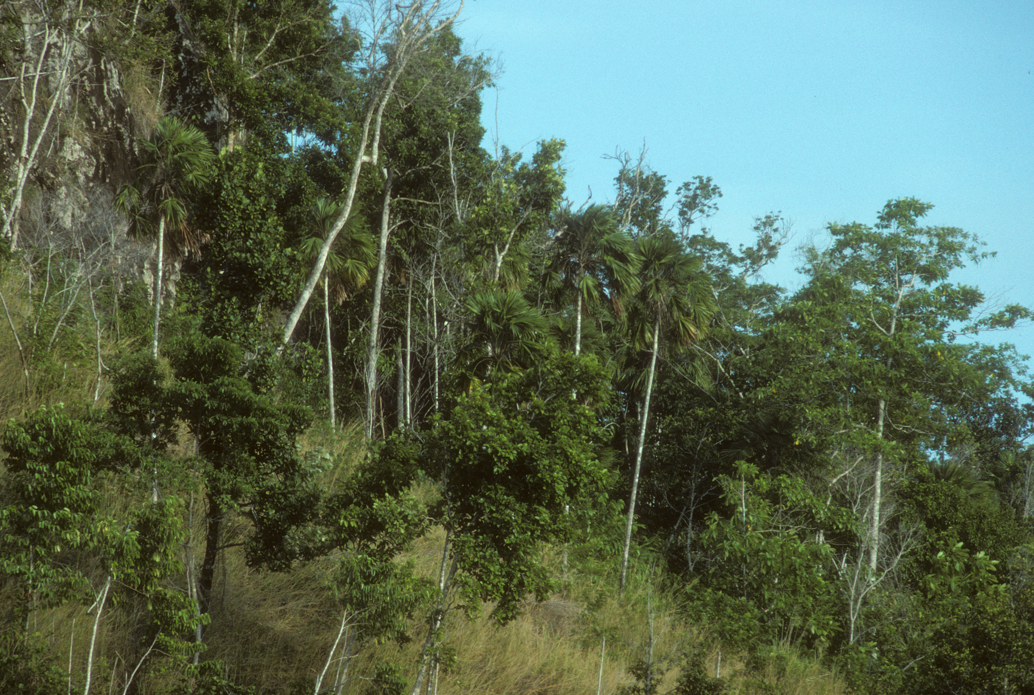 Tulagi, Solomon Islands. June 1995.